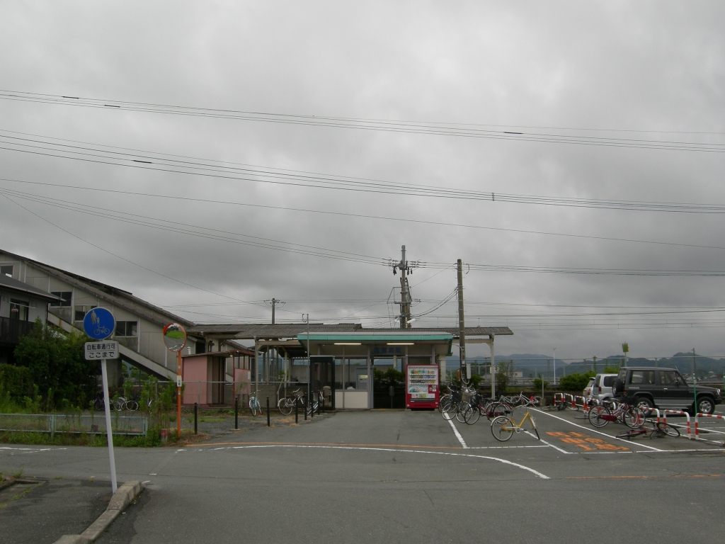 Minami-Setaka Station, Miyama City, Fukuoka, Japan